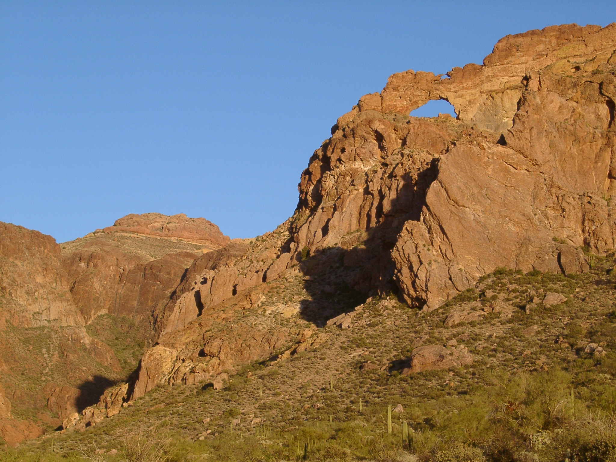 Two arches in organ pipe cactus national monument. Taken Christmas Day 2000 by Pretzelpaws with a Casio QV-3000EX camera.